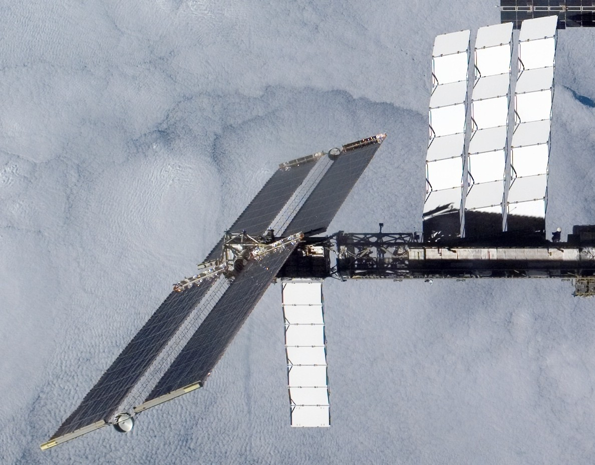 see below